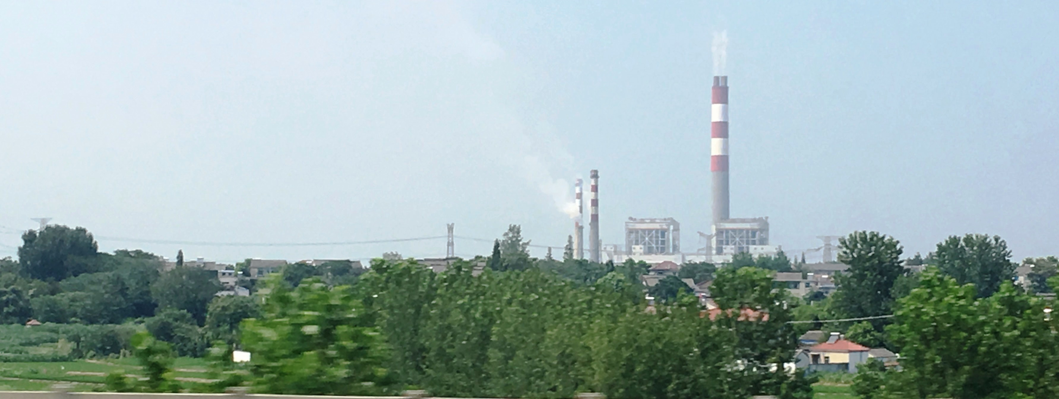 Image of the 1810 MW power station "Jiangsu Zhenjiang", on the Chang Jiang river bank. The view is from the South, from the Shanghai-Nanjing high-speed rail line.